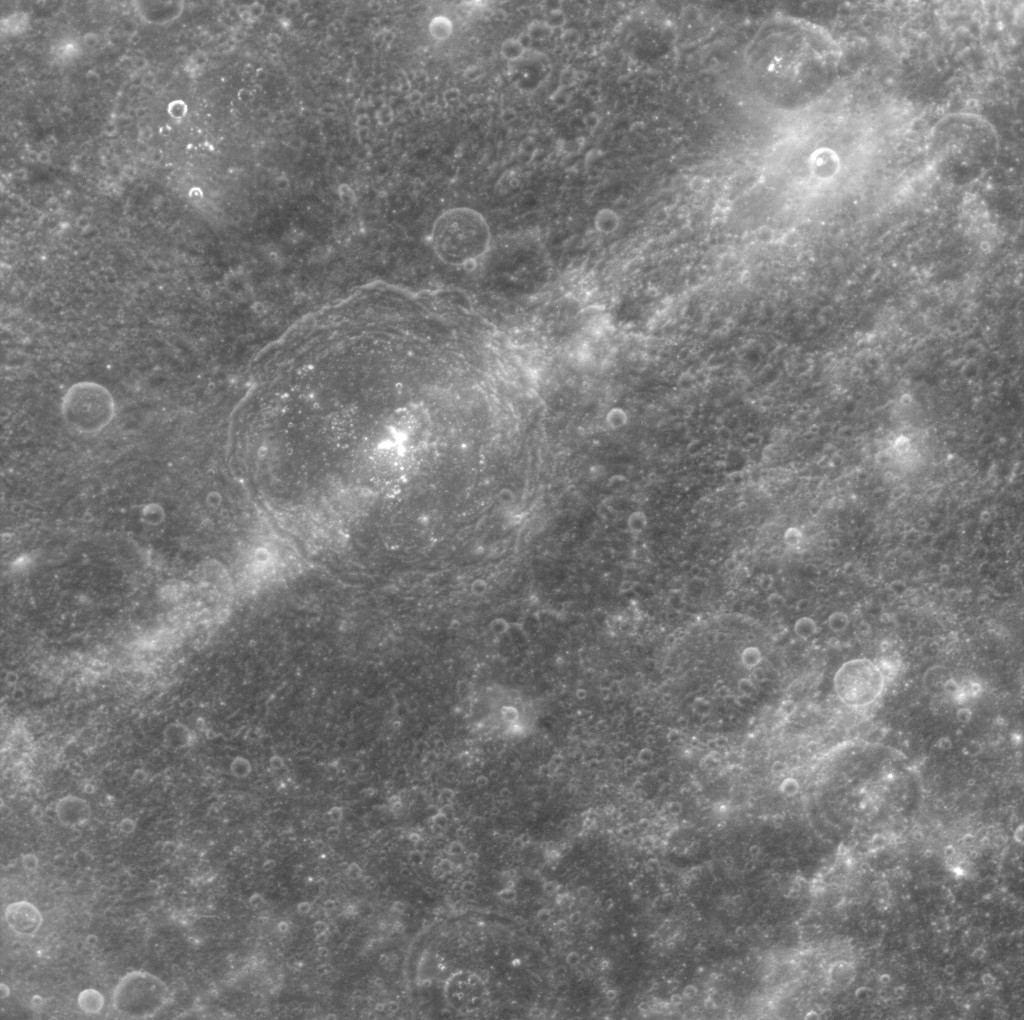 Aśvaghosa crater on Mercury. MESSENGER Wide Angle Camera image, rotated and cropped to center the crater. A ray from Hokusai crater (far to the north) crosses the crater. Center Emission Angle: 16.866012486386 Center Incidence Angle: 11.209586290619 Center Latitude: 10.421848653292 Center Longitude: 339.57207603504 Center Phase Angle: 28.074346964757